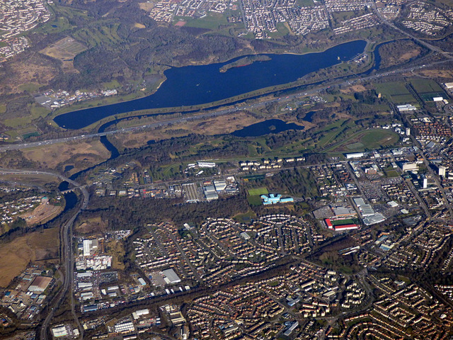 Burnbank and Strathclyde Loch from the air